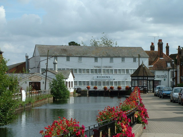 Antiques centre and restaurant Former water mill now a antiques centre and restaurant Halstead Essex